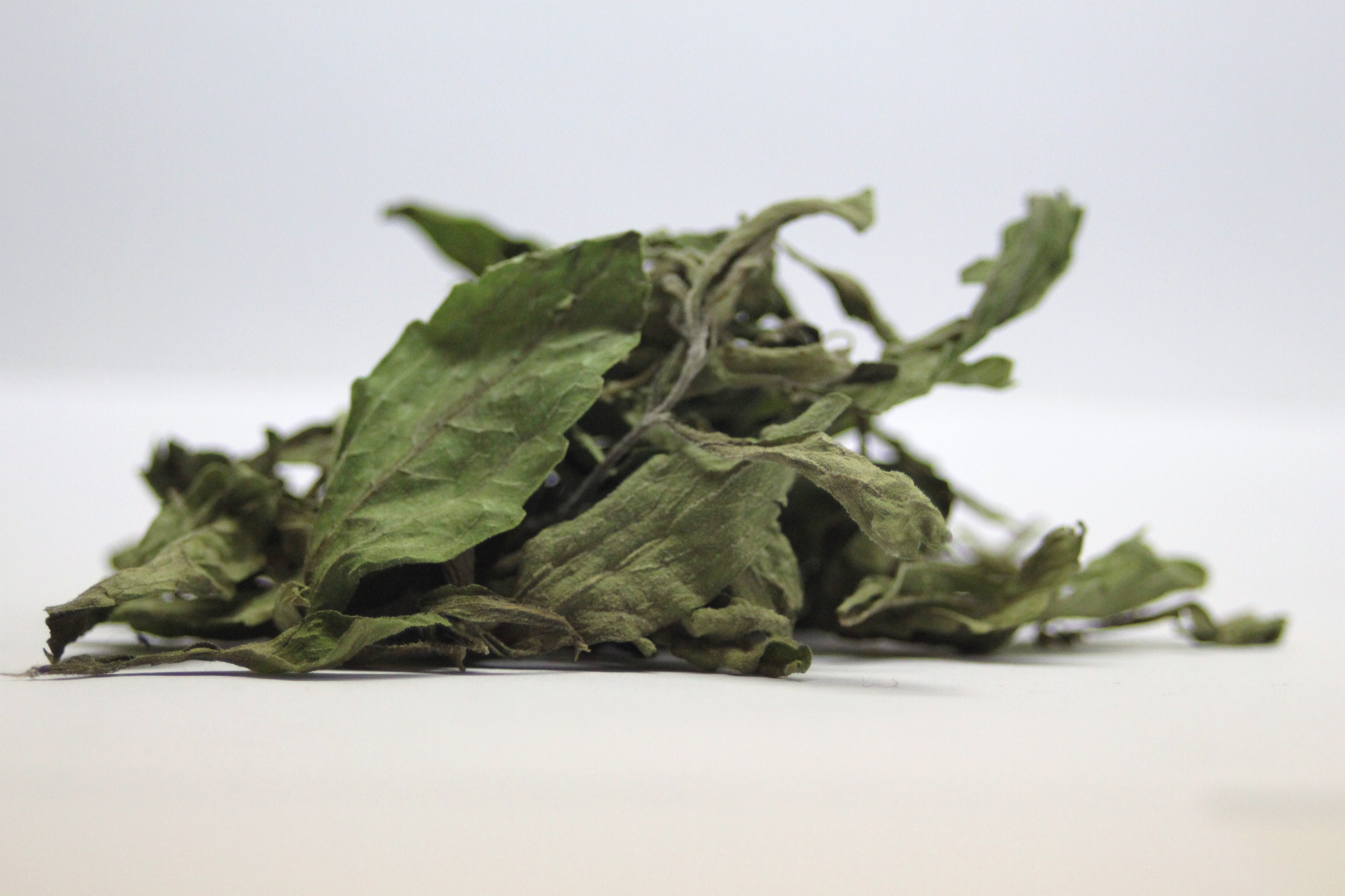 Dry leaves of Stevia rebaudiana